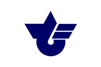 Flag of Doshi Yamanashi